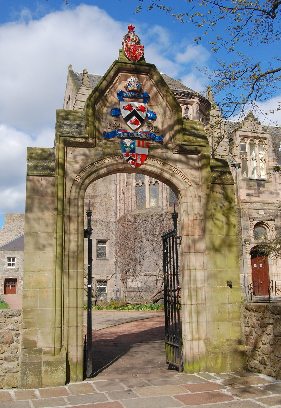 A mock-gothic arch at the University of Aberdeen designed by A Marshall Mackenzie